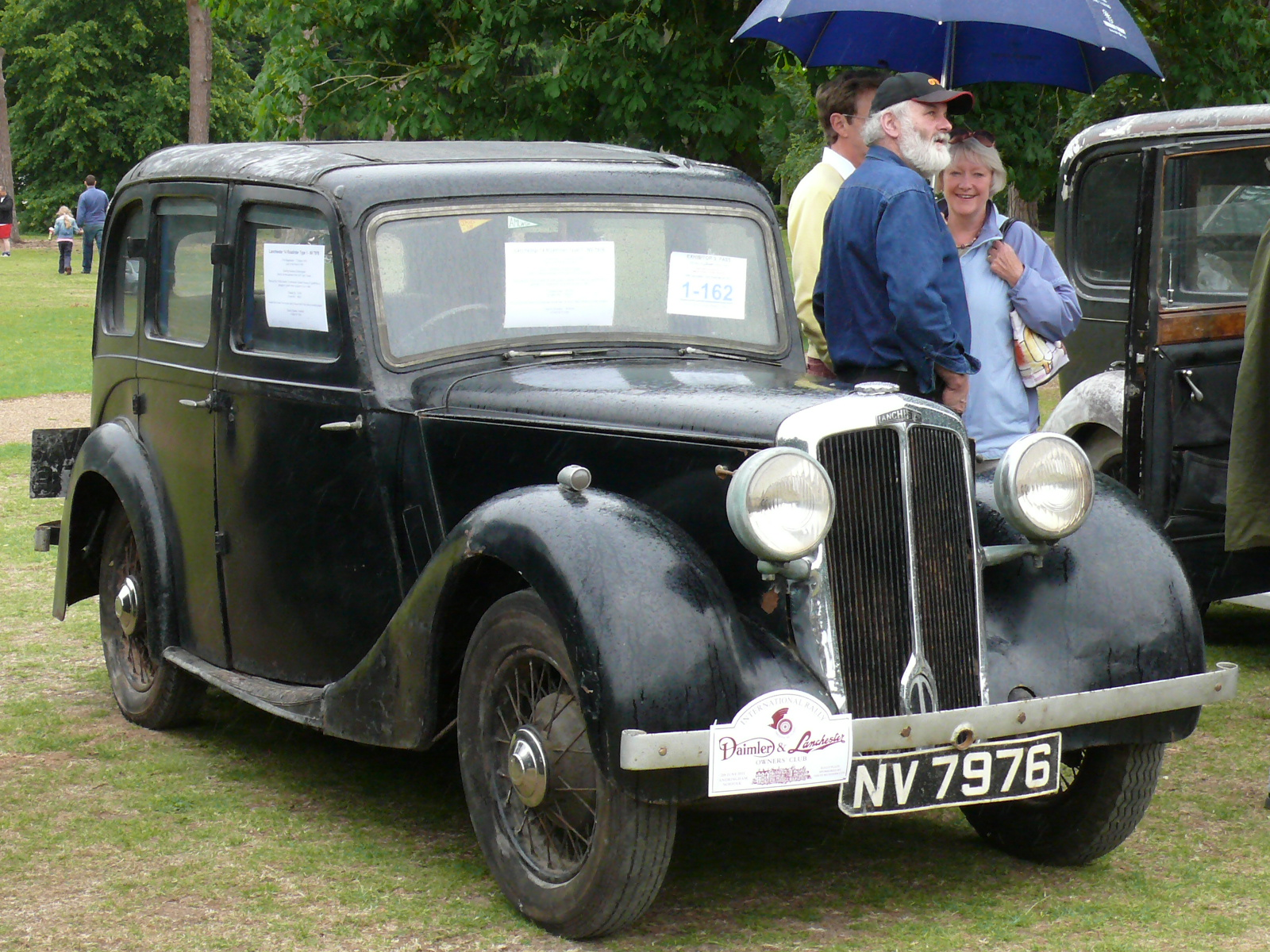 Lanchester LA14 saloon 6-light [NV 7976] Daimler & Lanchester Owners Club, International Rally, Queen's Birthday weekend, Sandringham, Norfolk Sunday 12 June 2011 (DVLA)